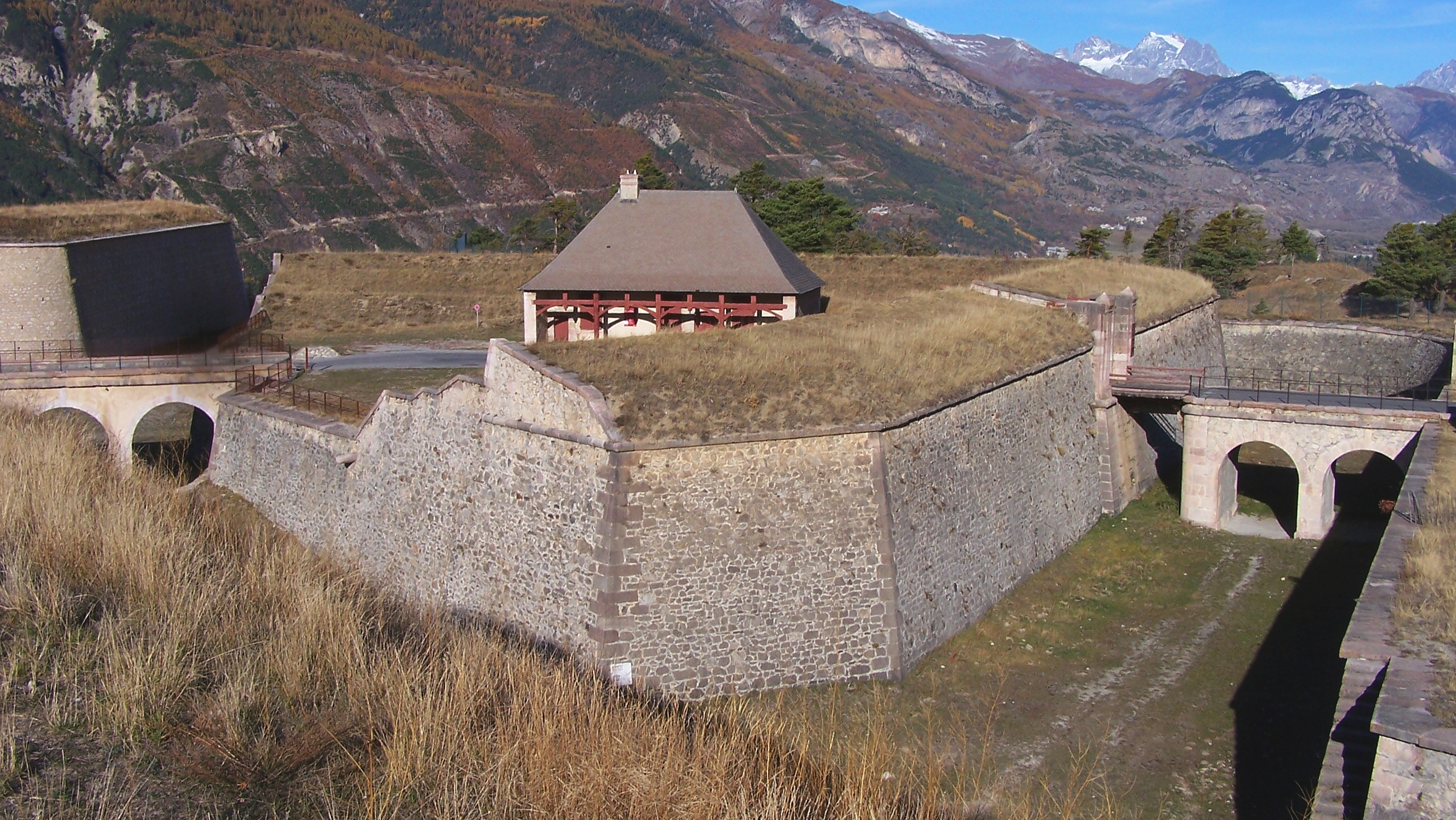 Ravelin at Mont-Dauphin, in front of Briançon's Gate